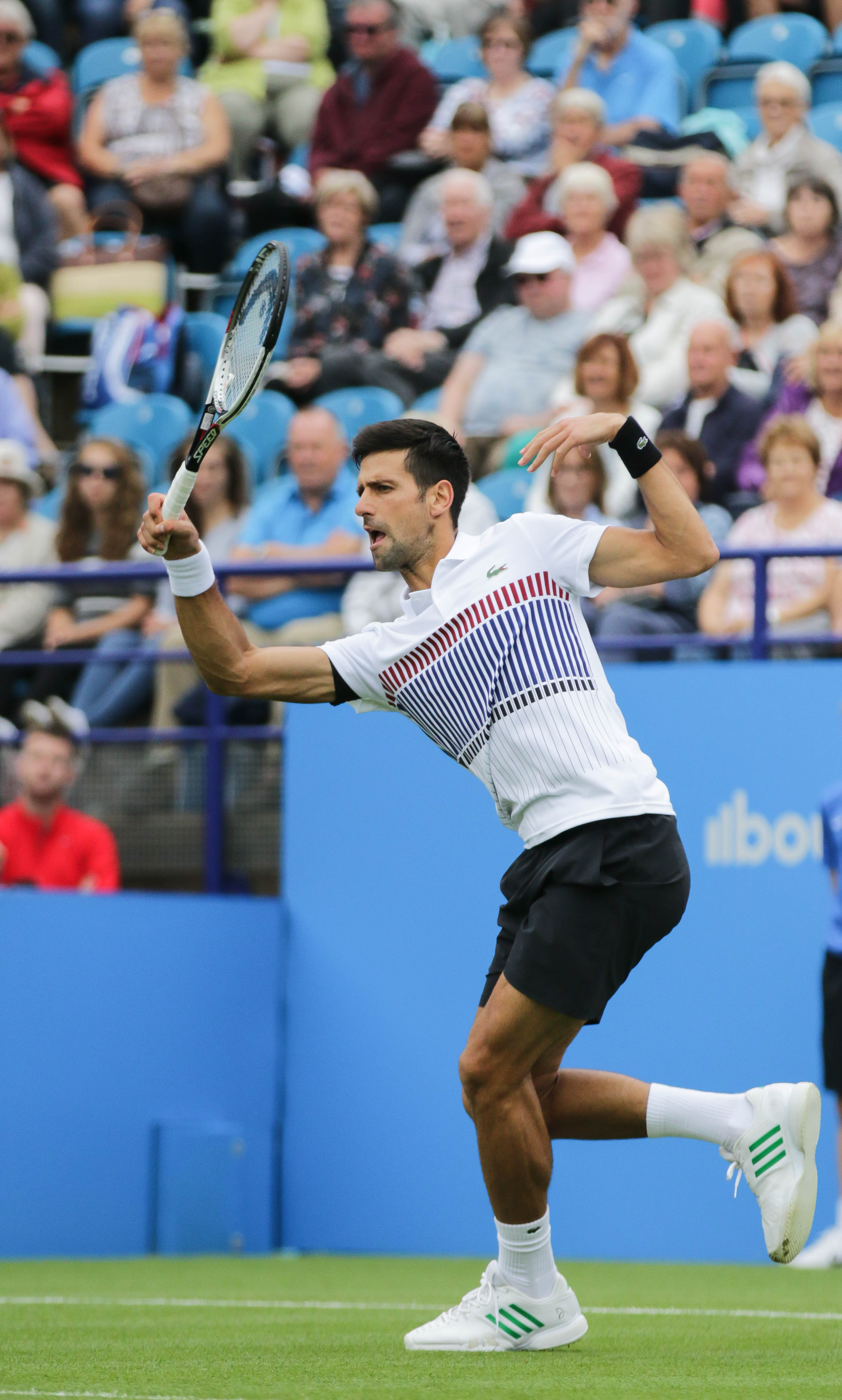 Eastbourne tennis 2017-196.jpg